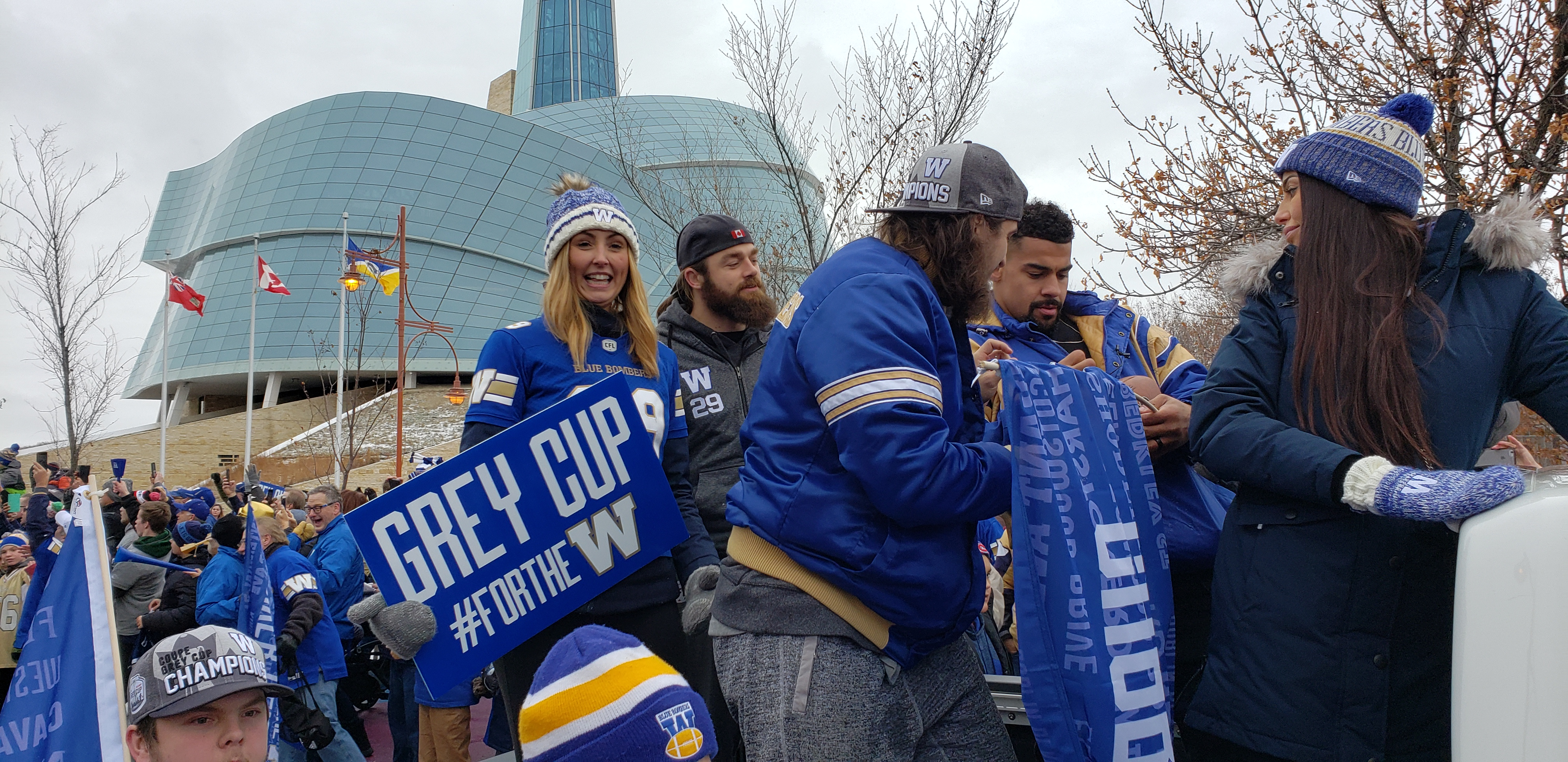 Jeff Hecht and Andrew Harris at the Blue Bombers' 2019 Grey Cup Parade in front of the Canadian Museum of Human Rights.